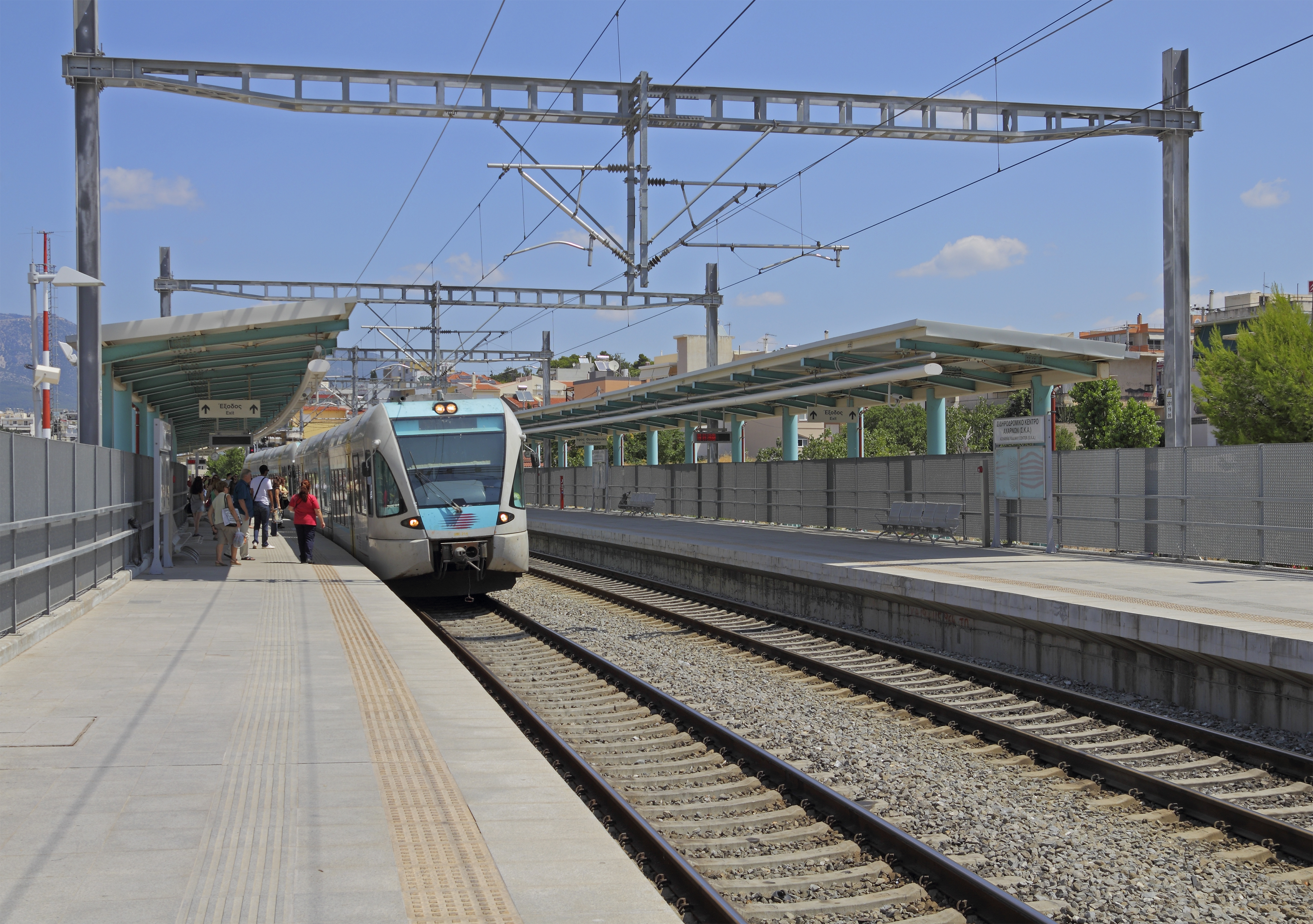 Proastiakos station «SKA» near Athens (Attica, Greece) – a train is arriving